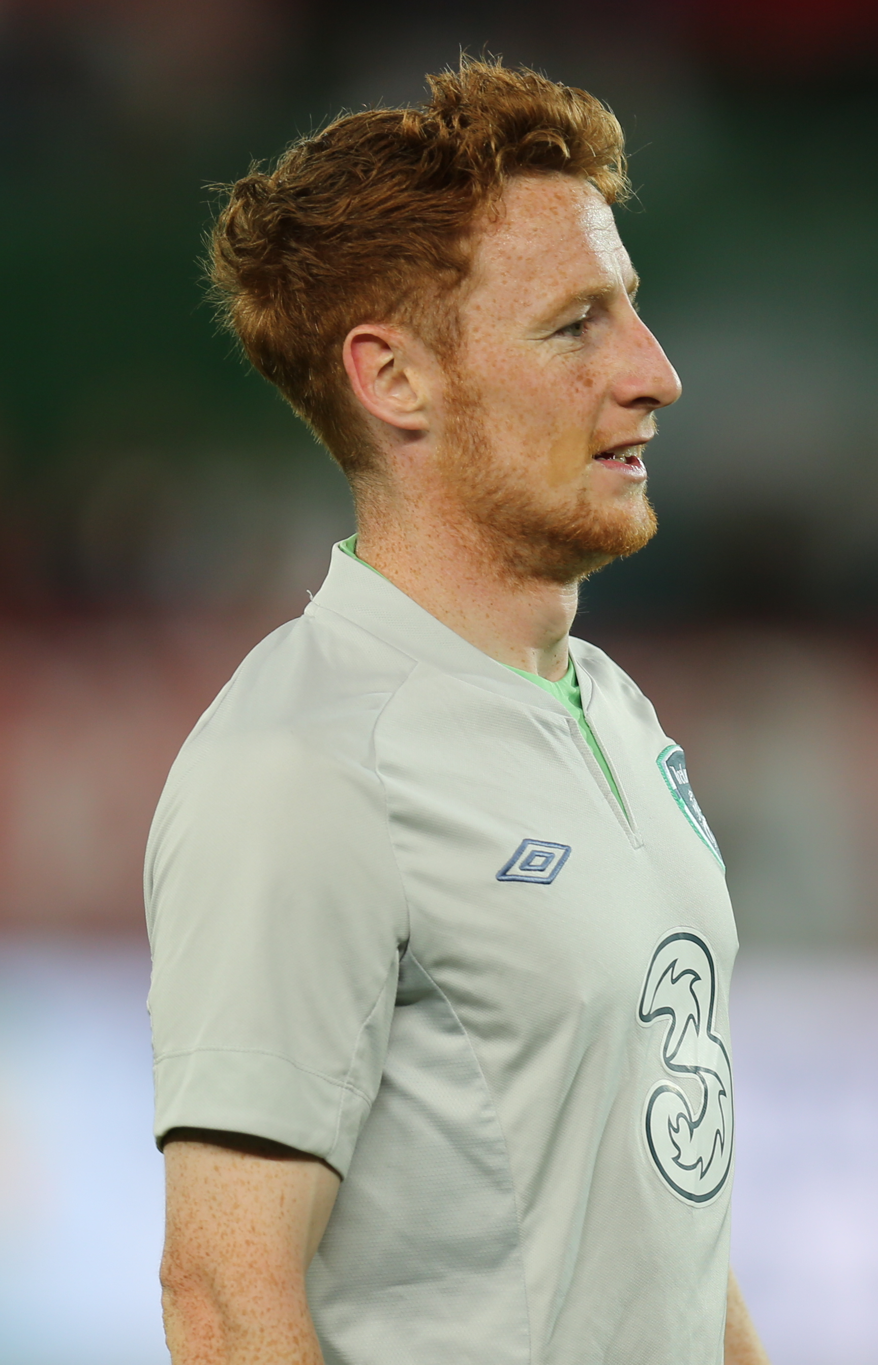 2014 FIFA World Cup qualification (UEFA), Group C: Republic of Ireland national football team at 10. September 2013 before the match against the Austria national football team (0:1) in the Ernst-Happel-Stadion in Vienna. Here: Stephen Quinn, irish midfielder The making of this work was supported by Wikimedia Austria. For other files made with the support of Wikimedia Austria, please see the category Supported by Wikimedia Österreich.